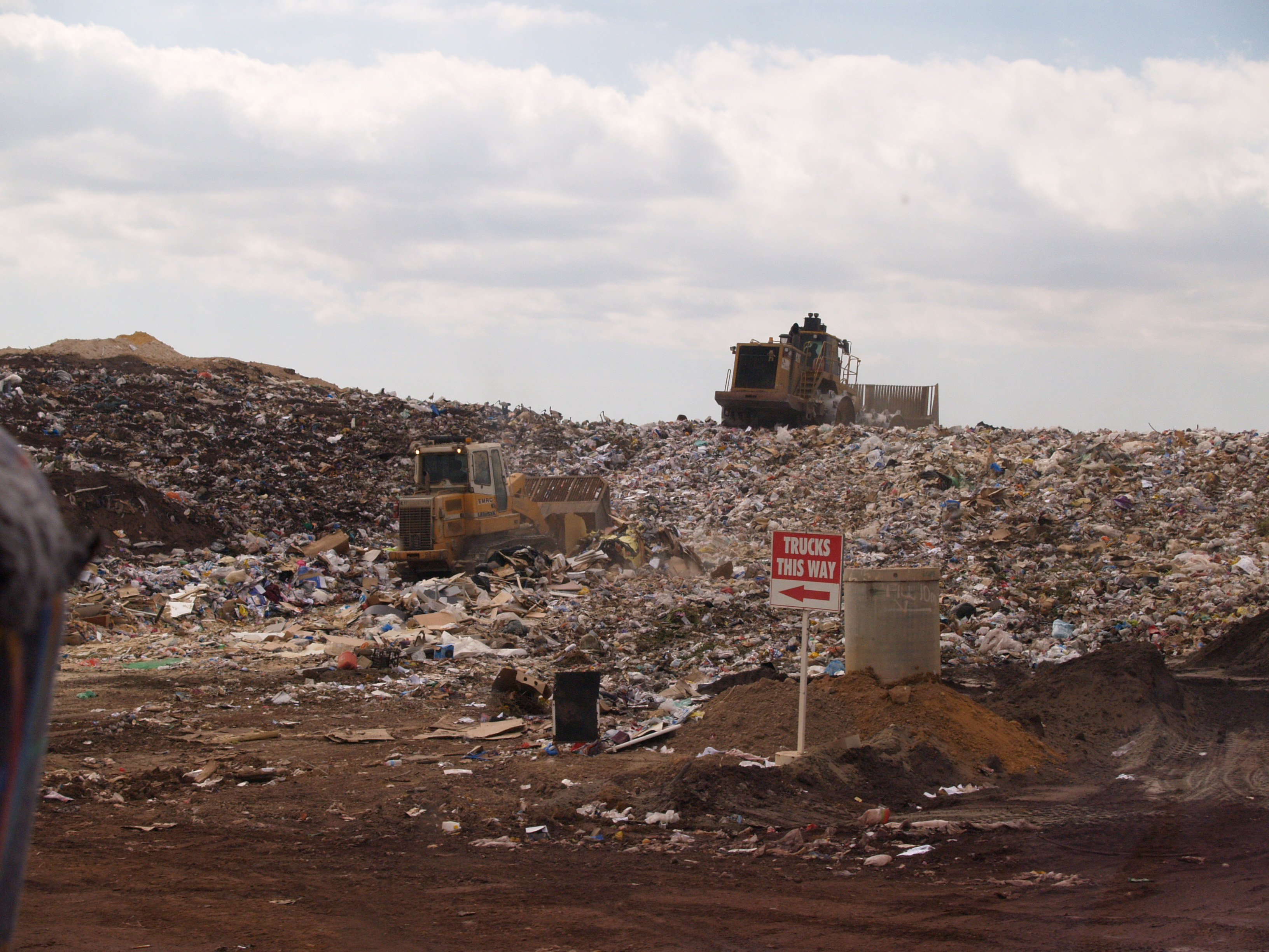 Active tipping area of an operating landfill in Perth, Western Australia